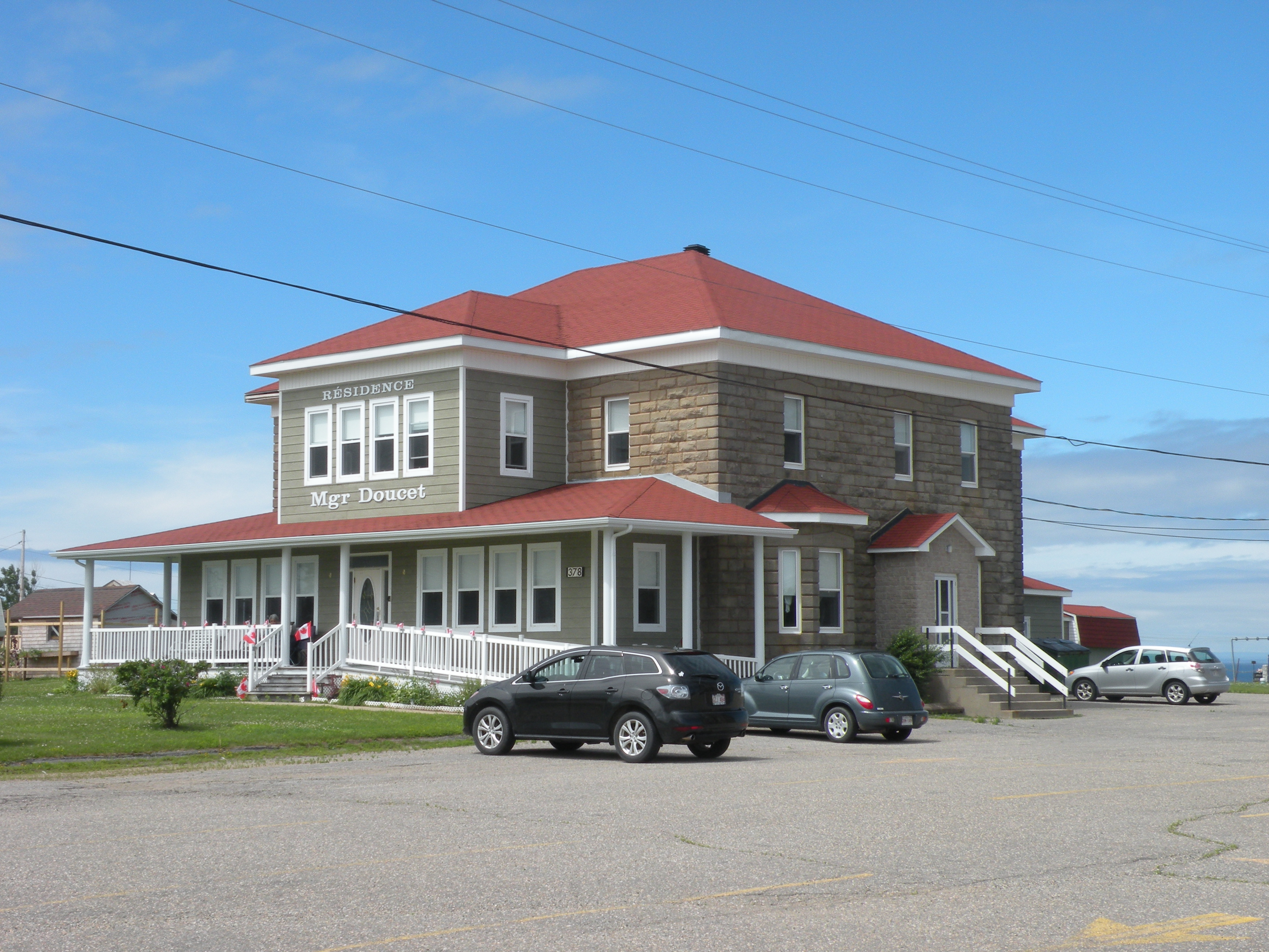 The Mgr Doucet residence in Grande-Anse, New Brunswick, Canada.